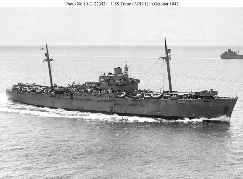 USS Tryon (APH-1) underway. Her funnel has been reconfigured and enlarged following wind tunnel tests to keep smoke off the after decks. She has also received a radar mast but does not yet have Welin davits.